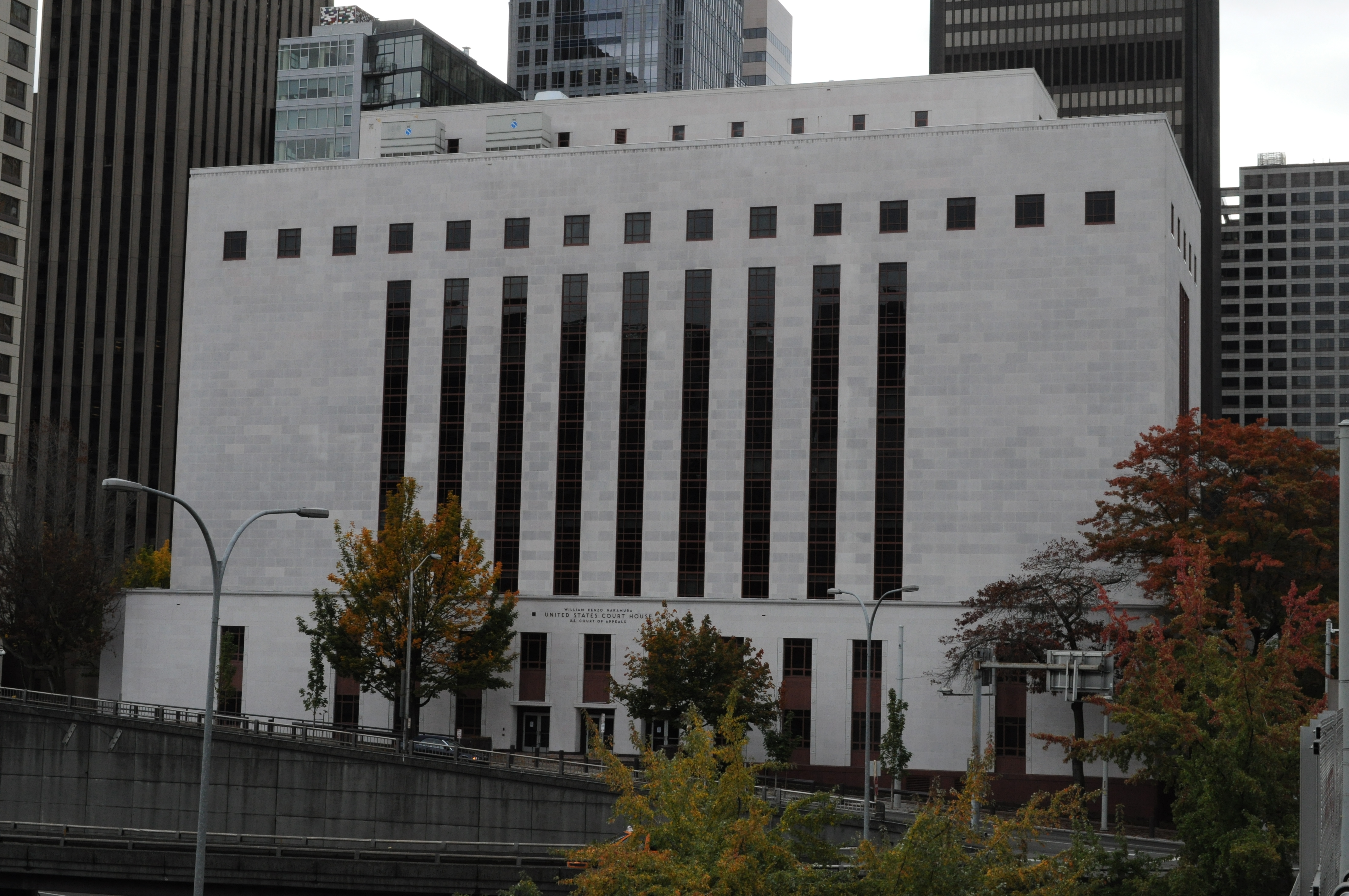 Sixth Avenue side of Old Federal Court House (U.S. Court House) in Seattle, 1010 Fifth Avenue, Seattle, Washington, USA. The building is listed on the National Register of Historic Places, ID #80004003. Designed by Stanley Underwood and Louis A. Simon.